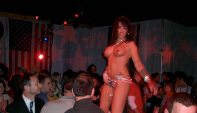 Party for the documentary film Inside Deep Throat during the Sundance Film Festival in 2005.